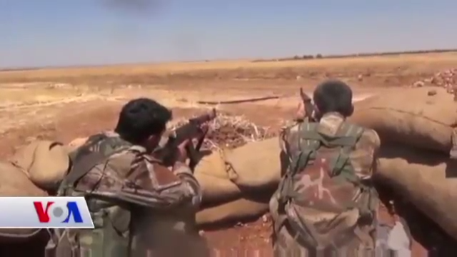 Rebels from the Kurdish Front in a position near the village of Harbul in northern Aleppo.